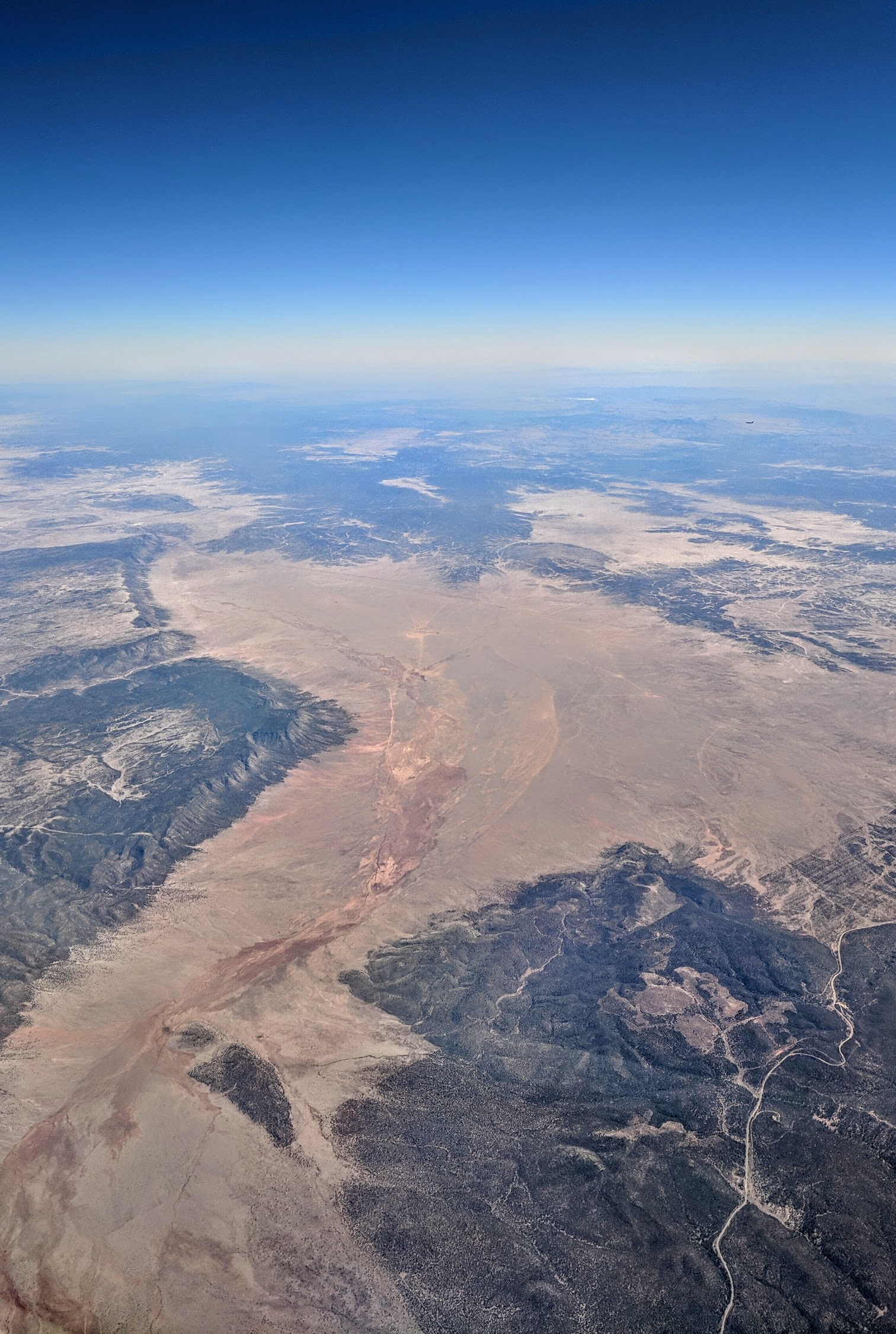 Aerial view of the Arizona high desert south of the Grand Canyon, looking south, including the stretch of Route 66 between Seligman (left) and Yampai (right)